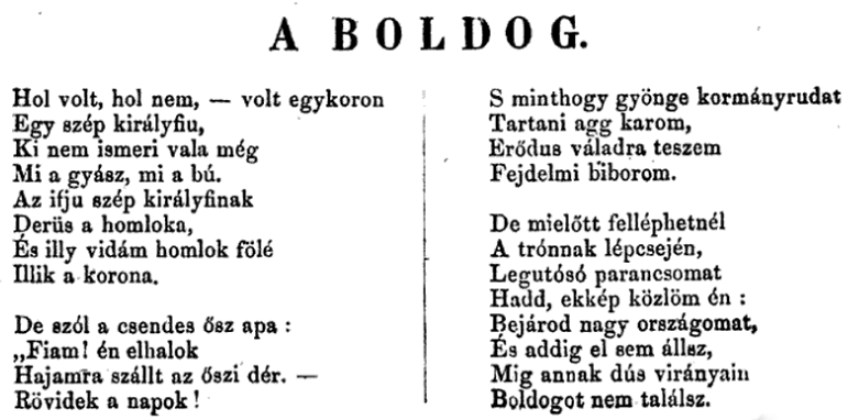 Poem of Bulcsú Károly